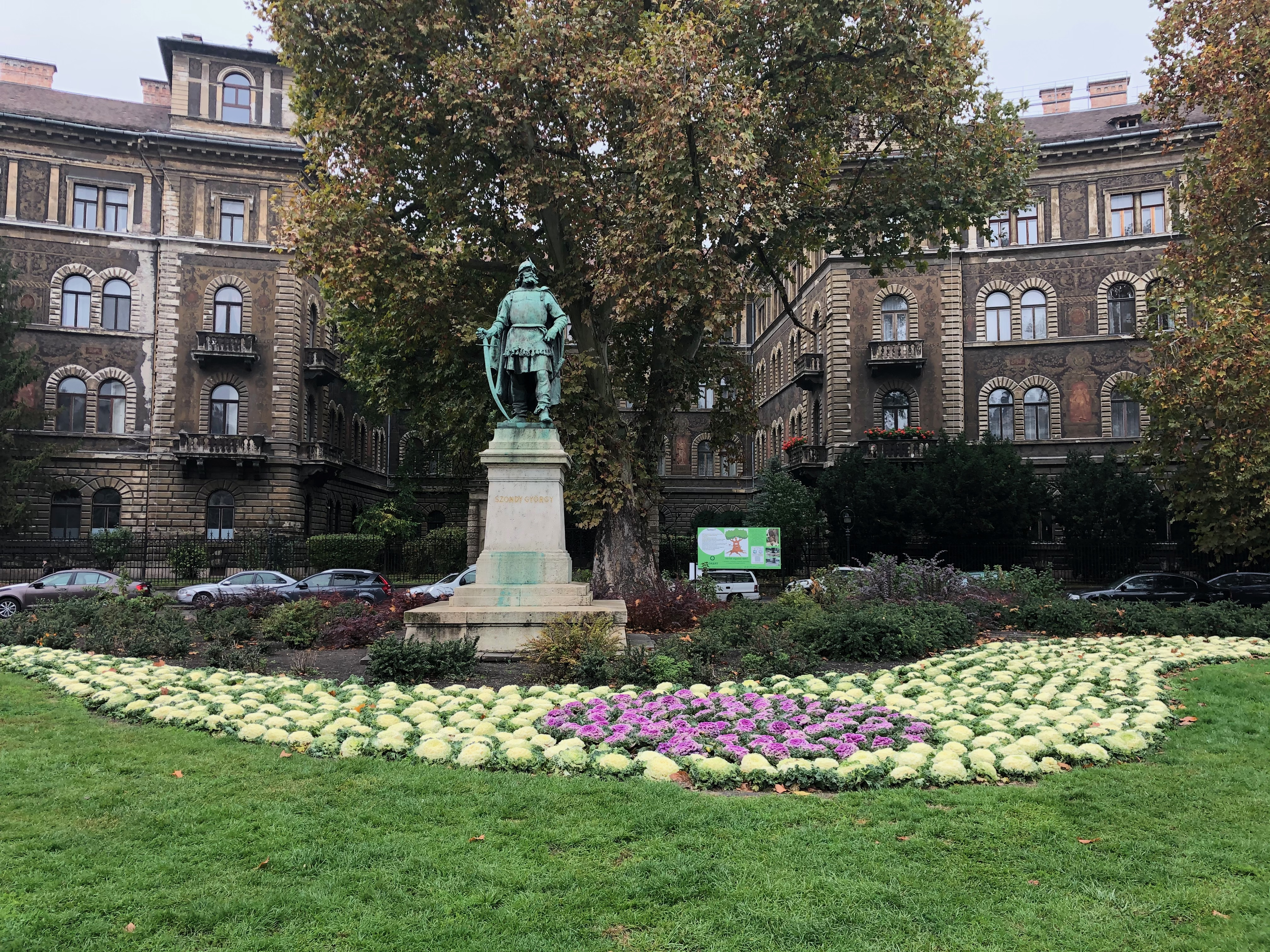 Kodai Kerond square